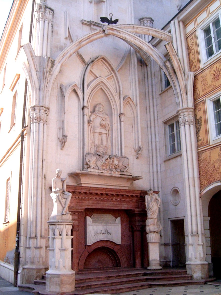 Monument of the king Mathias Corvinus of Hungary, Székesfehérvár